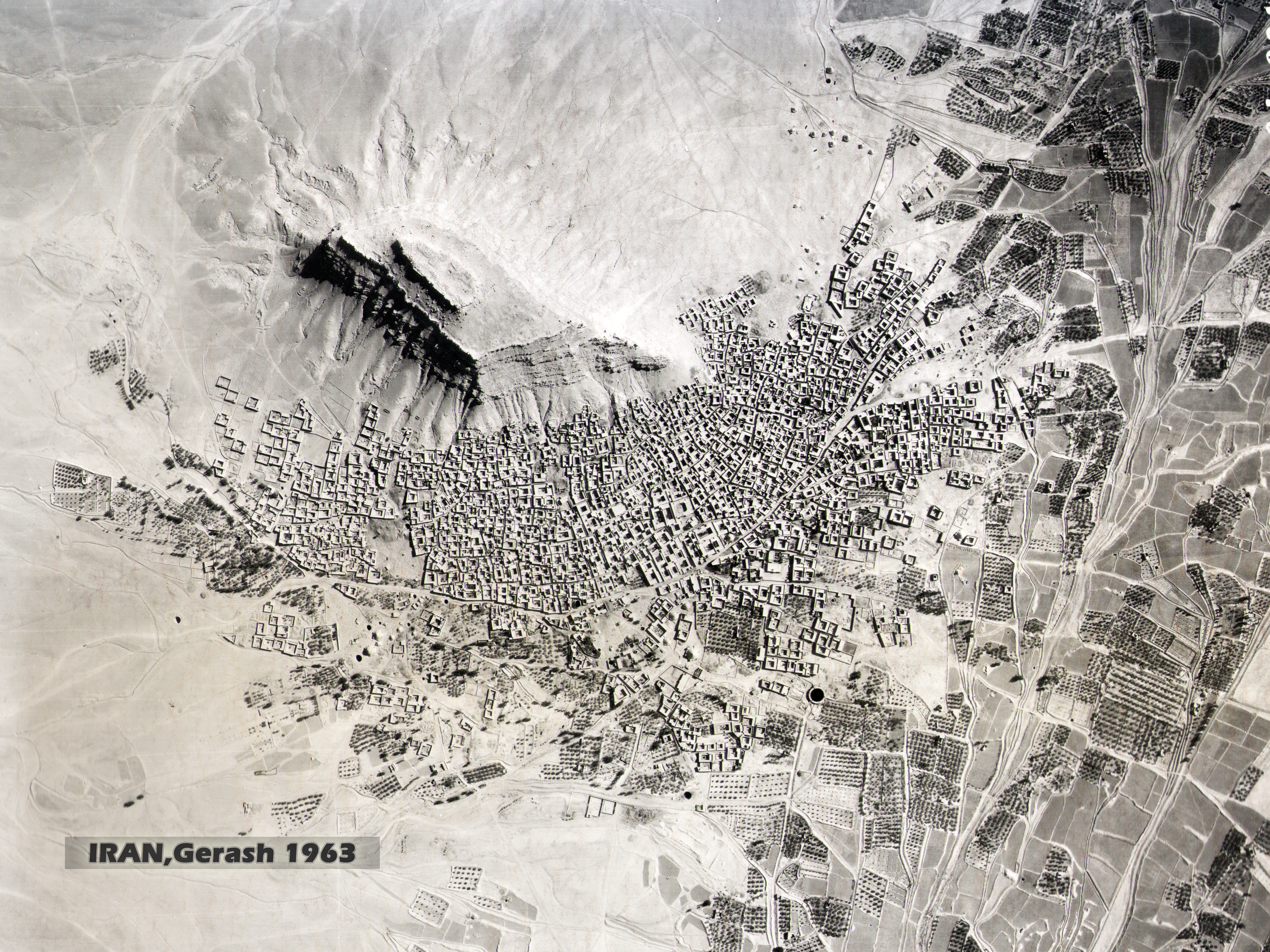 Airplane took picture from head of Gerash in 1963.